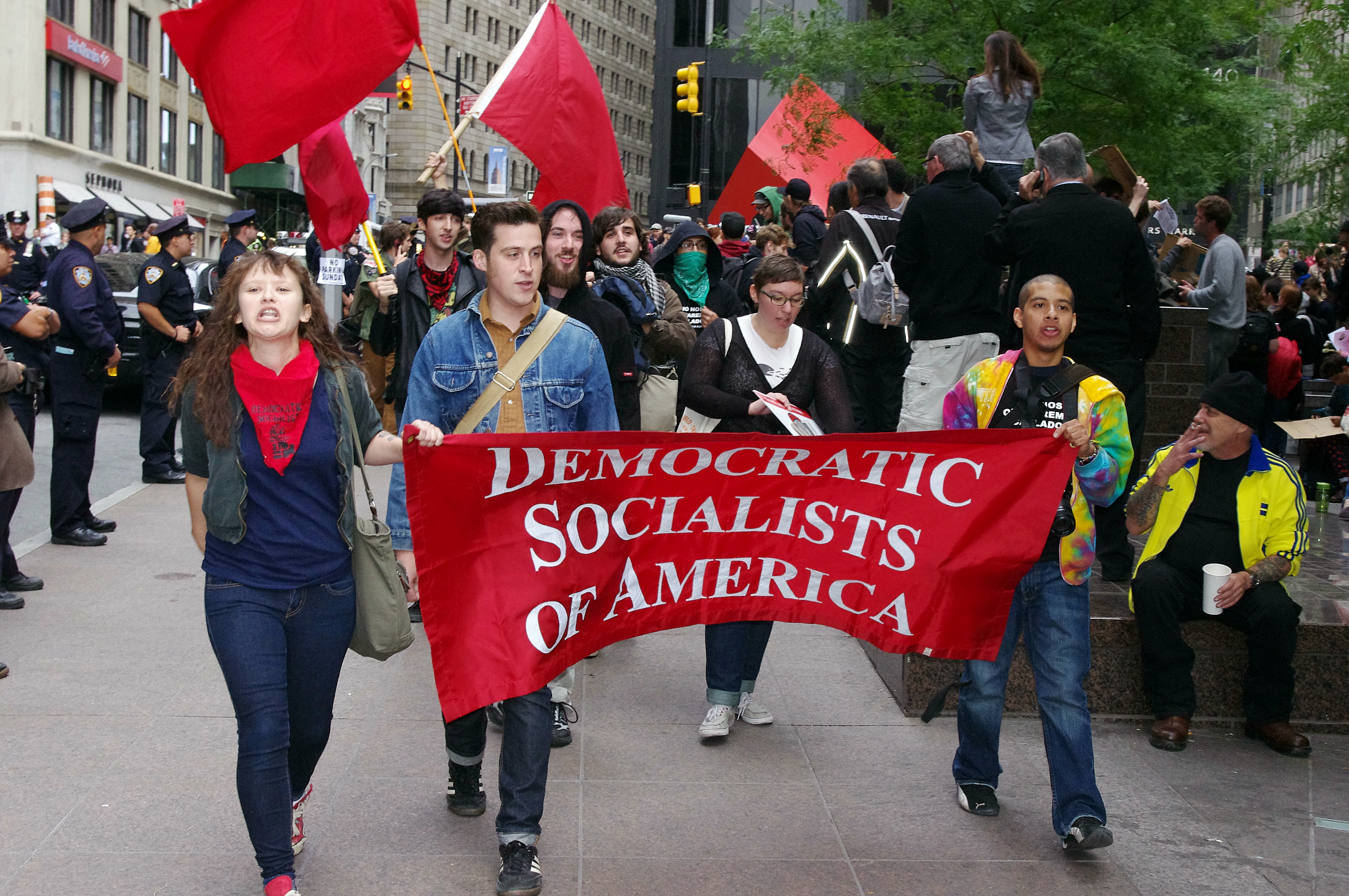 Members of the Democratic Socialists of America march at the Occupy Wall Street protest in New York.